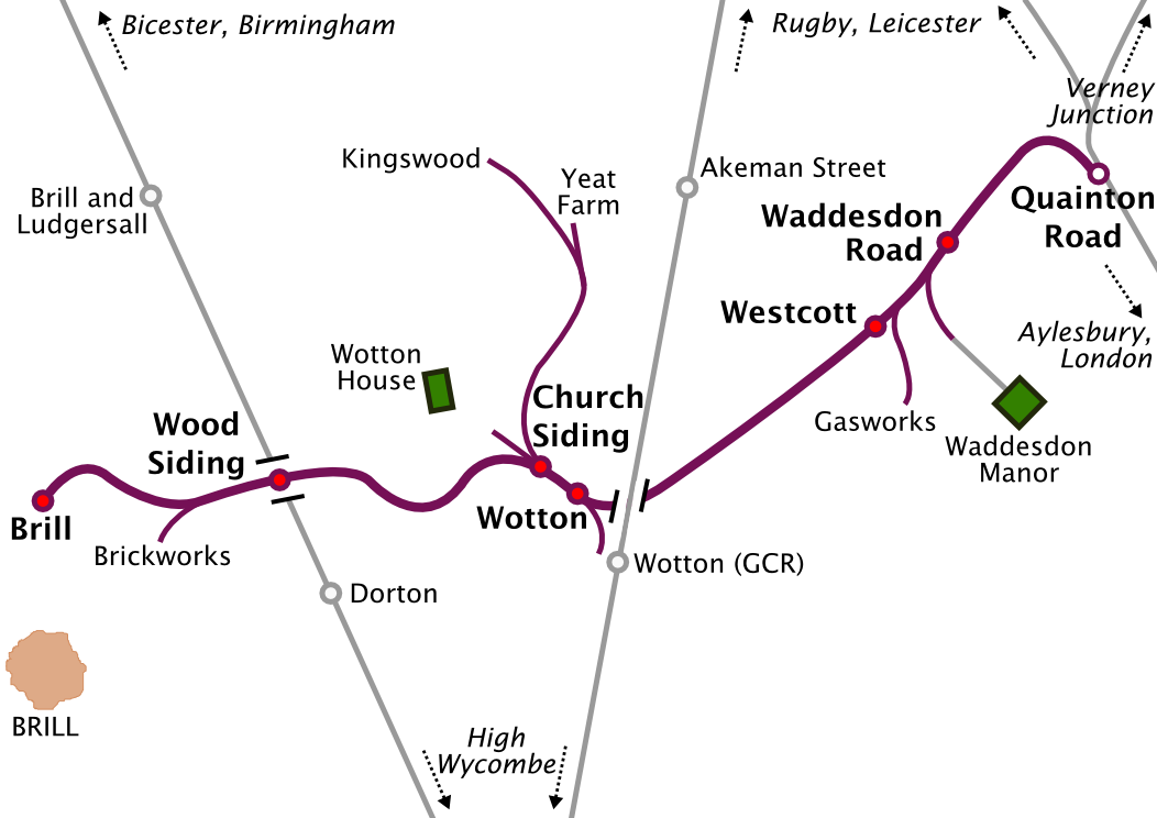 The Brill Tramway and associated lines